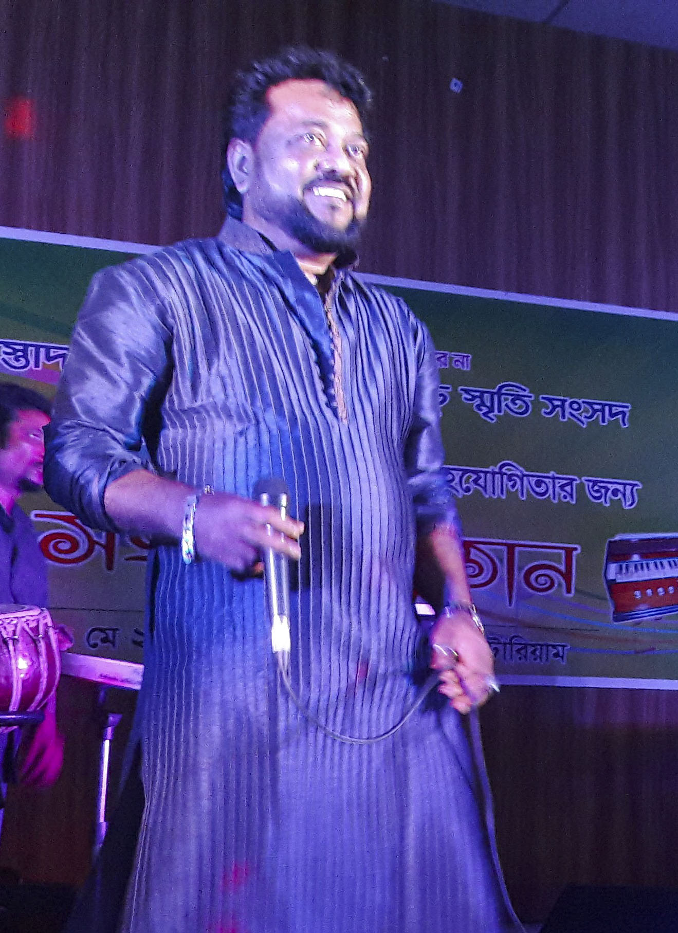 Andrew Kishore is a Bangladeshi singer who is active in the music industry of the country since the 1980s.